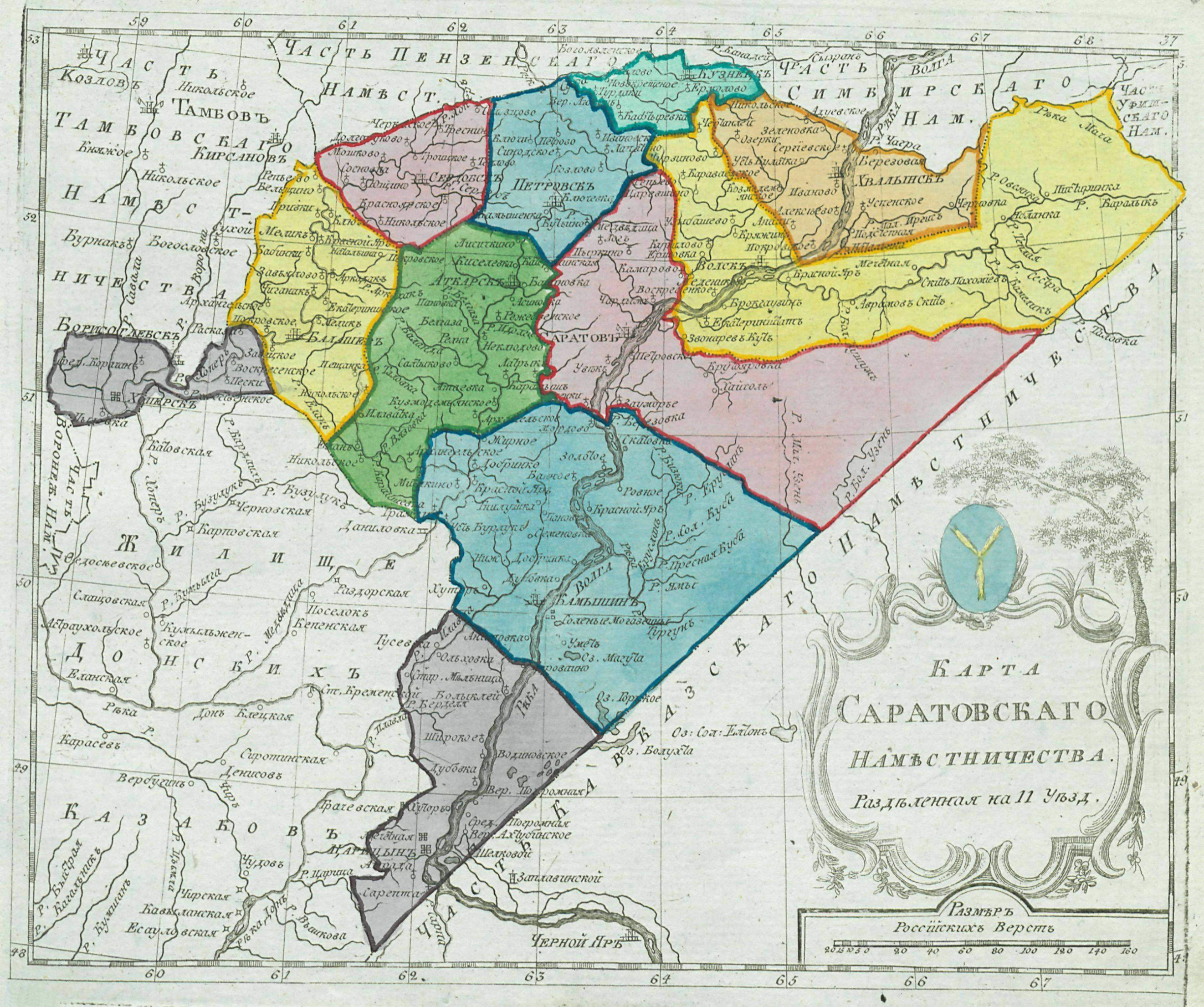 Small atlas of the Russian Empire (1792). Map of Saratov Namestnichestvo (map 36).